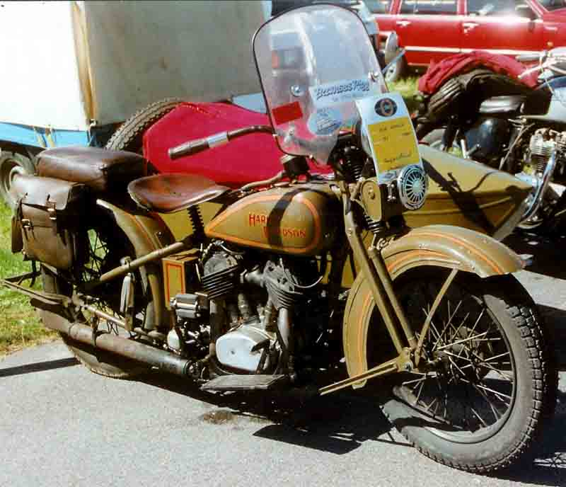 Harley-Davidson 1200 cc SV 1931